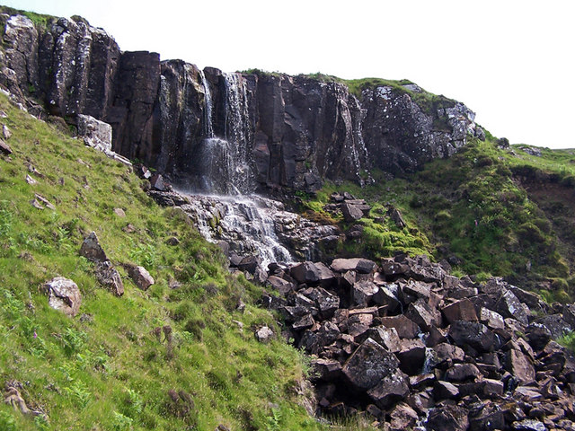 Eas Mor waterfall Waterfall on Allt Mhicheil. The fall would be more spectacular after a few rainy days, but getting to see it across the expanse of boggy moorland would be a challenge!